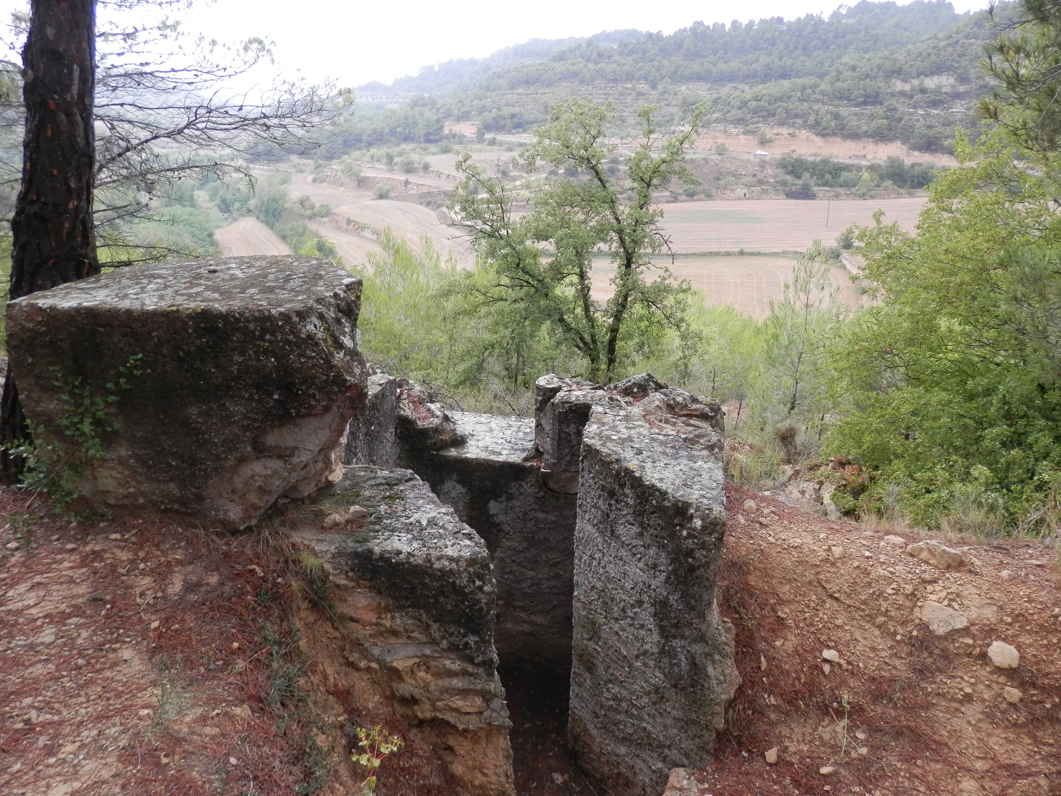 View of the first bunker of the Planots Hill.